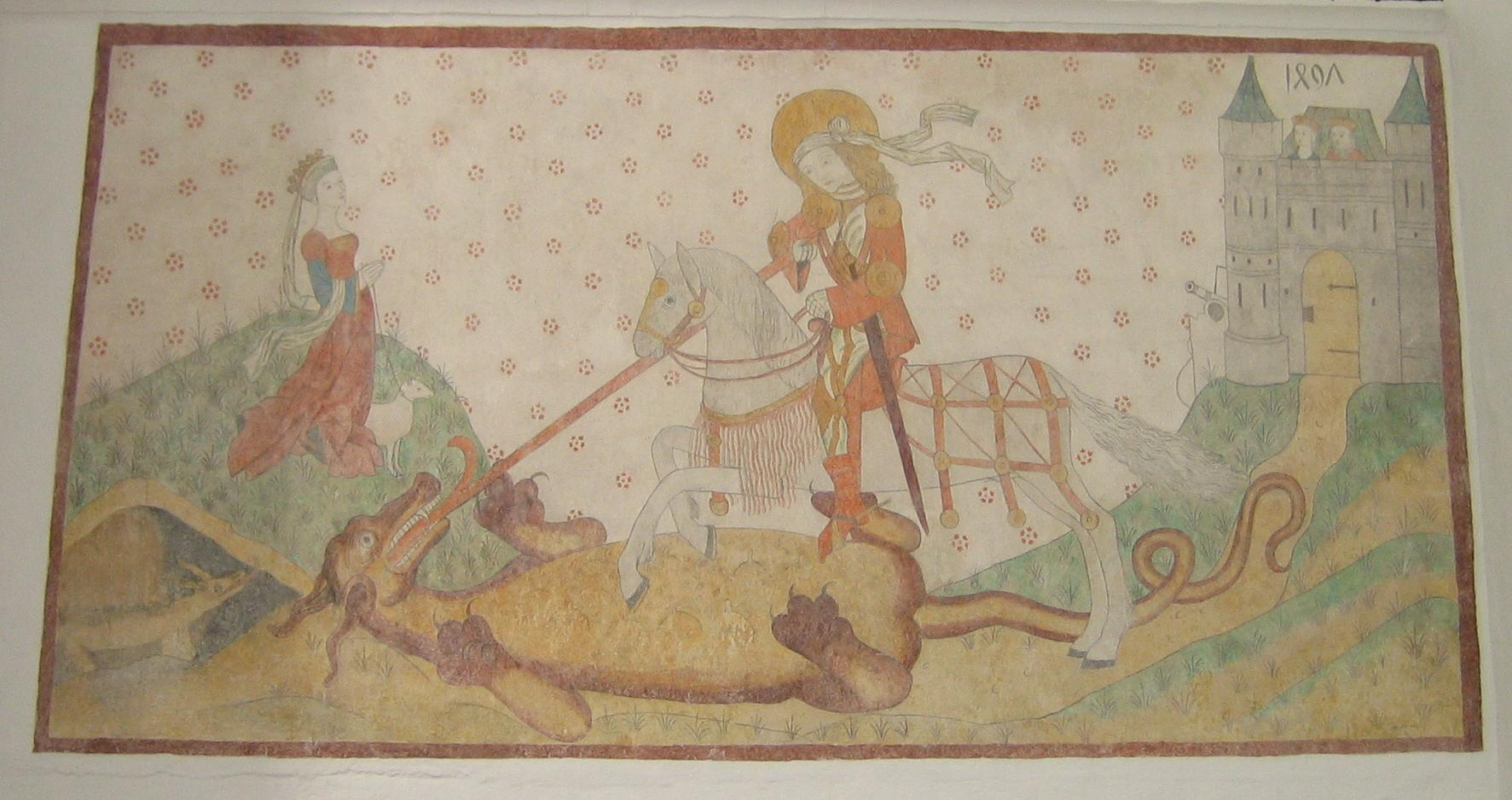 A fresco of St. George with the dragon inside the Aarhus Cathedral.